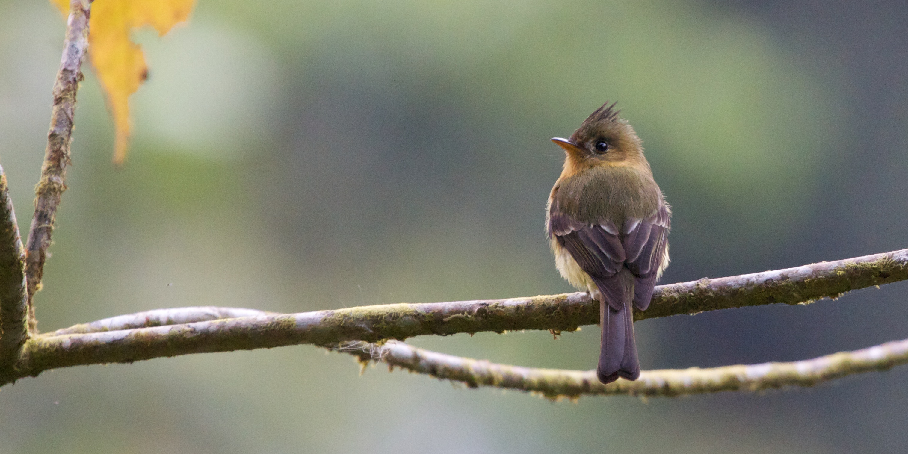 A Northern Tufted Flycatcher in Limón, Costa Rica.